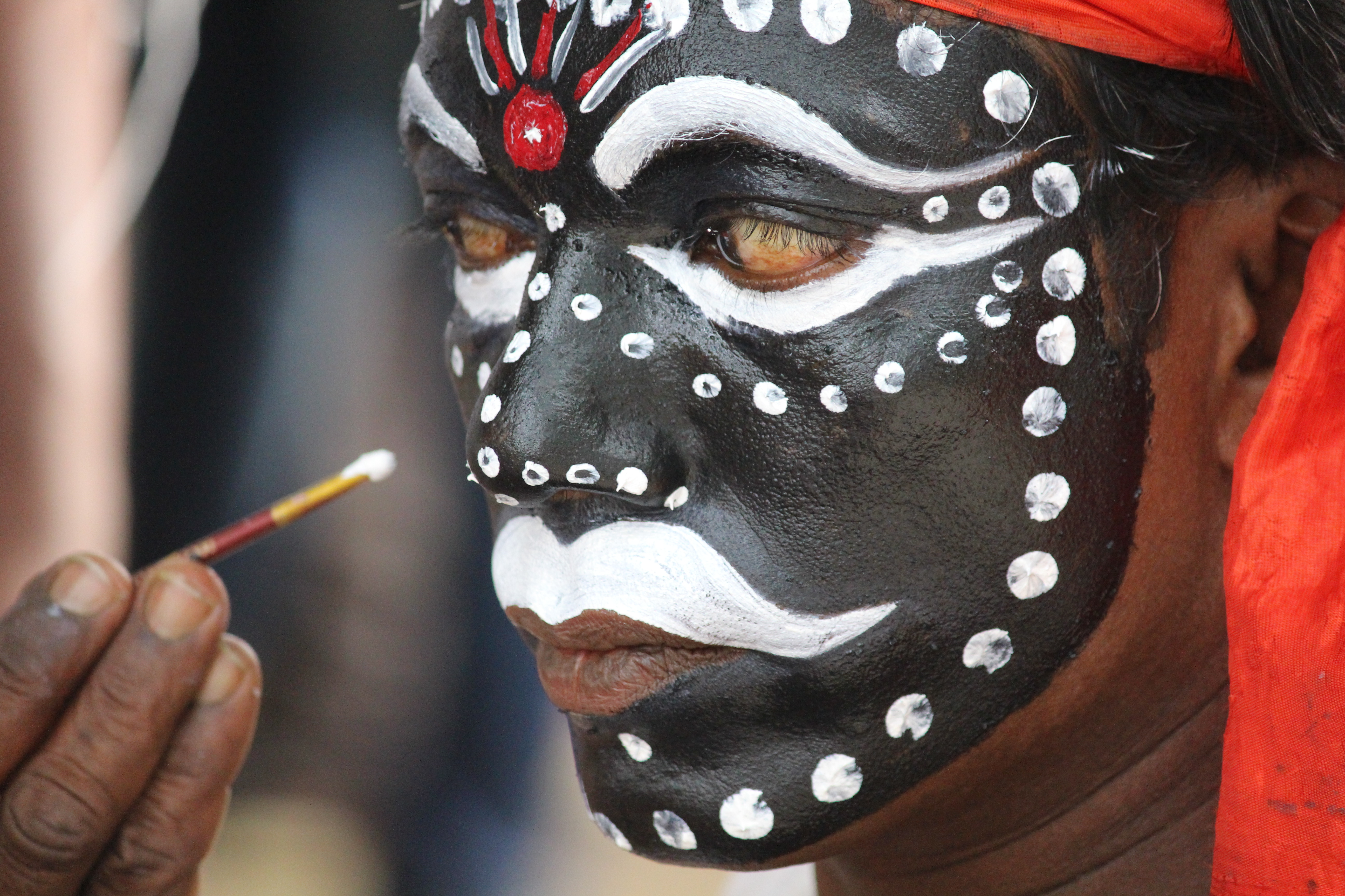 Kakkarissi Natakam is a satirical dance-drama.